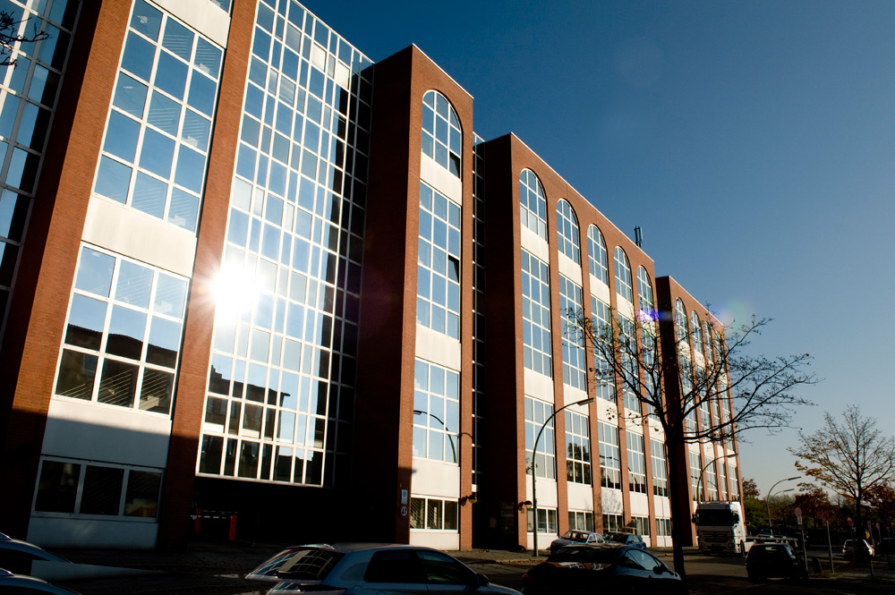 Germania Airline Headquarter, Riedemannweg 58, 13627 Berlin